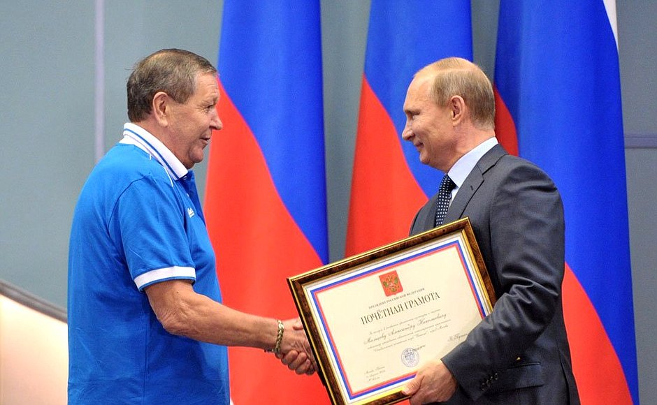 Vladimir Putin presents Alexander Maltsev with an honorary certificate for his services to developing physical culture and sport.